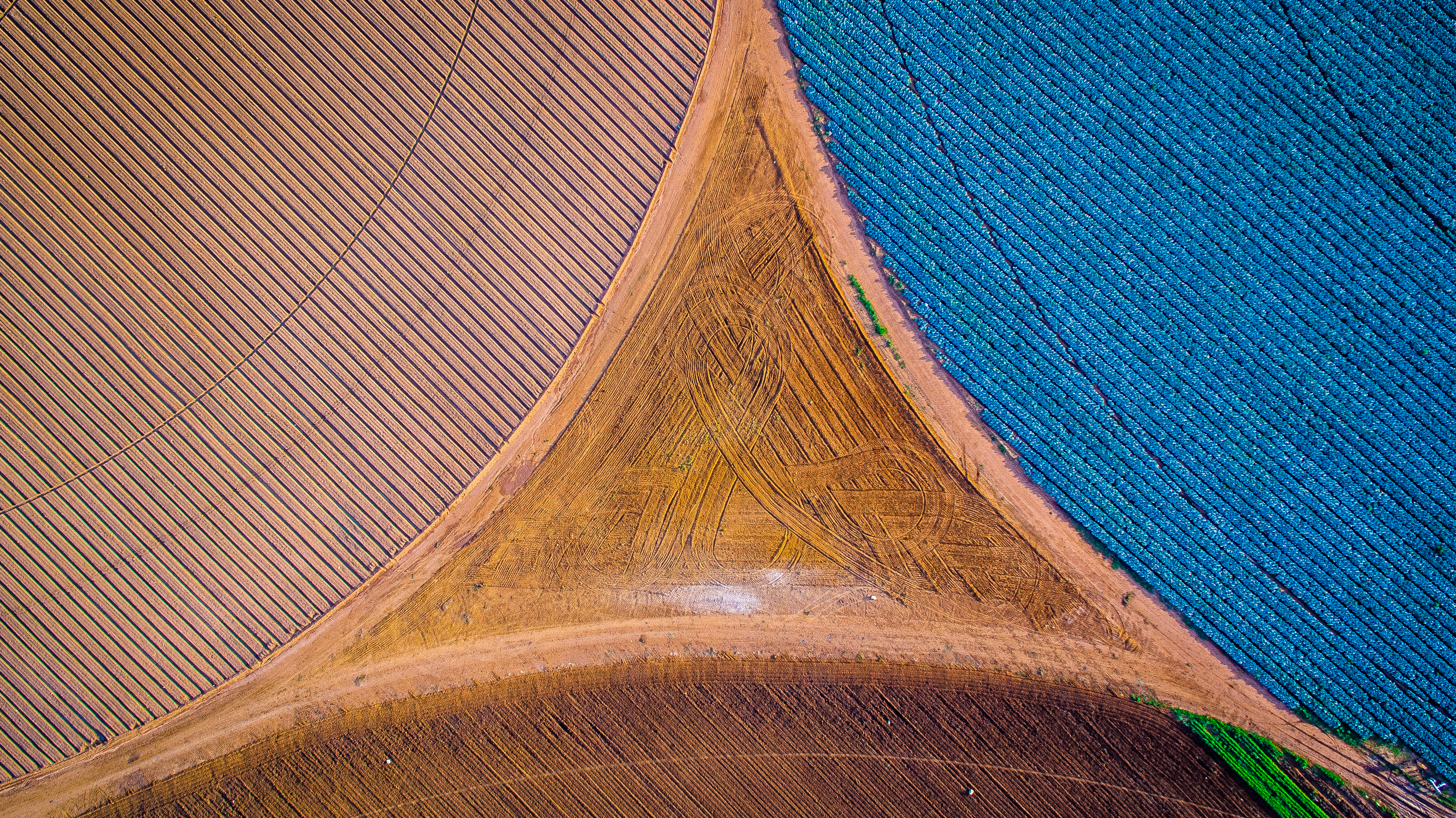 This was taken in South Africa just as the new crops were sprouting after a very cold winter. The triangle was hidden between 3 different crop types. The crops are planted in circles for efficient irrigation, this method of irrigation is called center pivot irrigation. The tire track of the irrigation system is visible in the crops, it also forms perfect circles. This triangle is only visible from above.